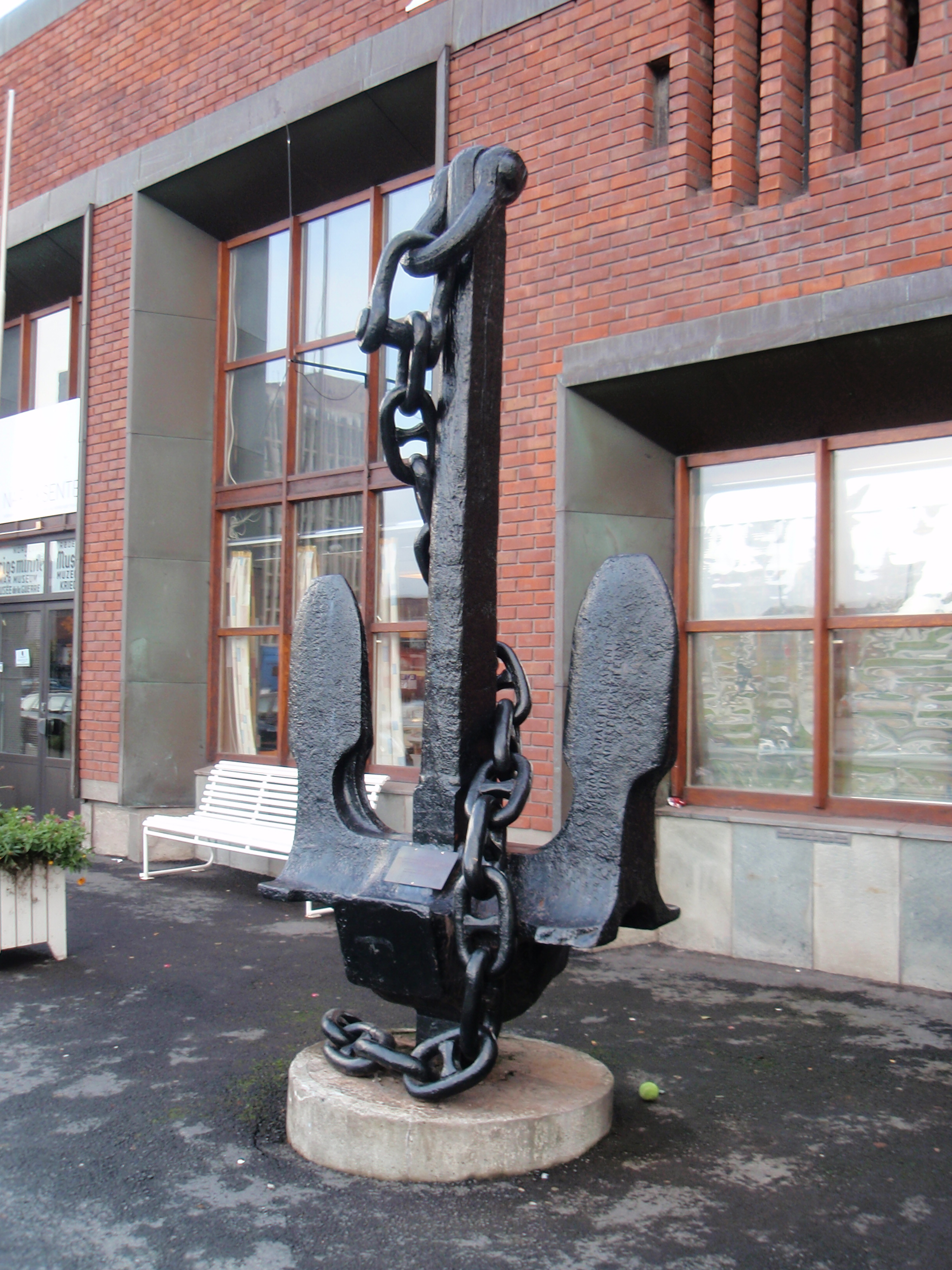 The anchor of the Norwegian coastal defence ship Norge outside the War Museum in Narvik.